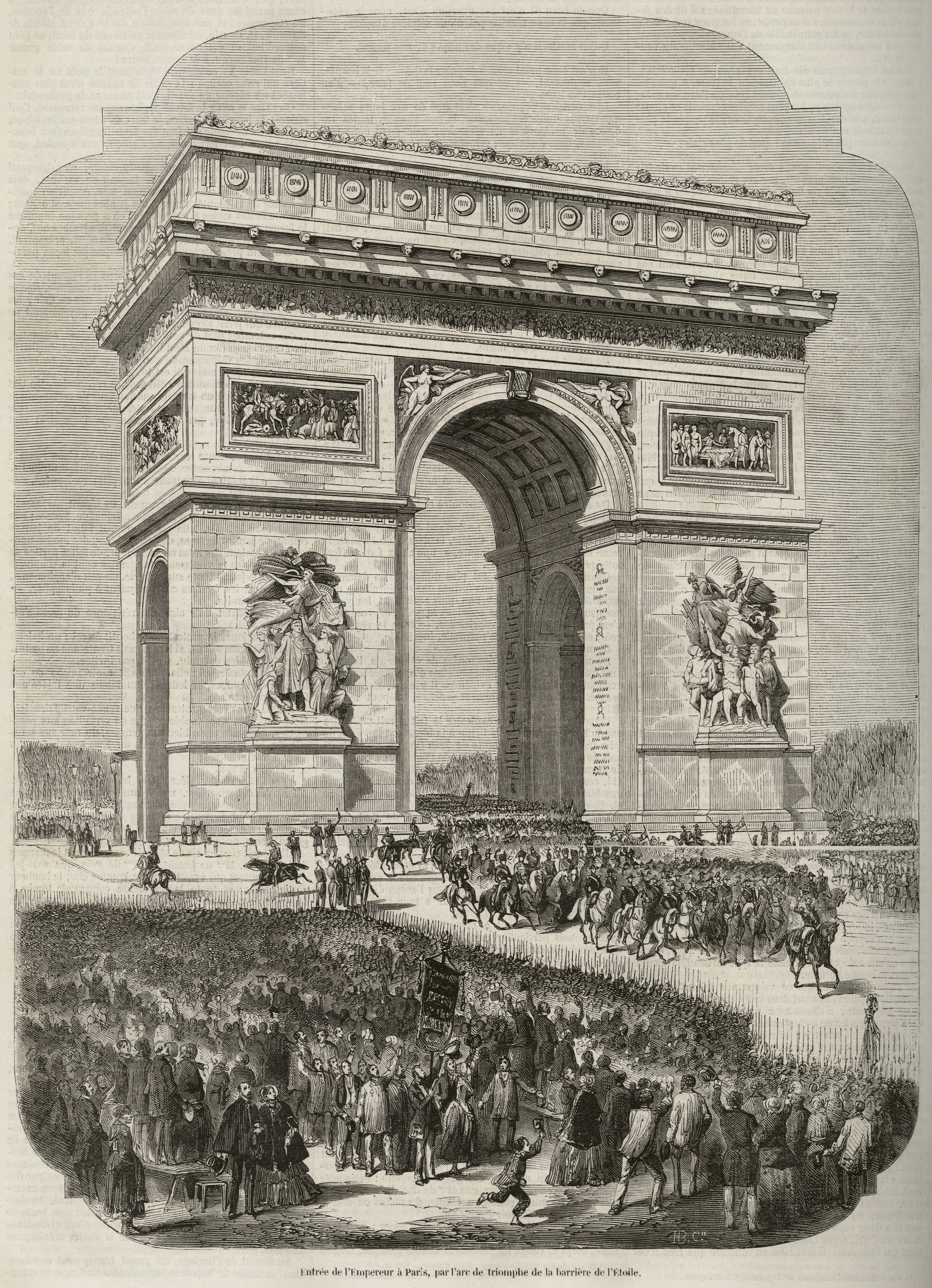 An illustration of Napoléon III's symbolic arrival in Paris, via the Arc de Triomphe, to commemorate the establishment of the Second Empire.